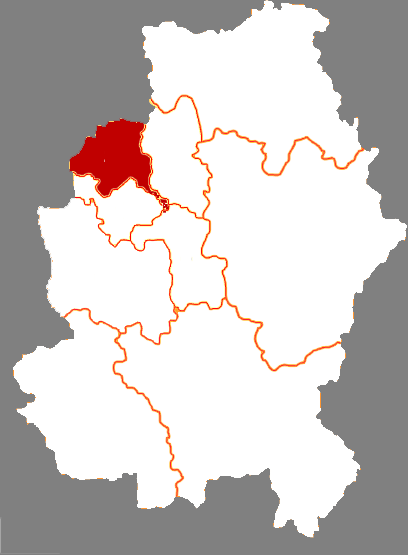 Location of Changyin district in Jilin City, China